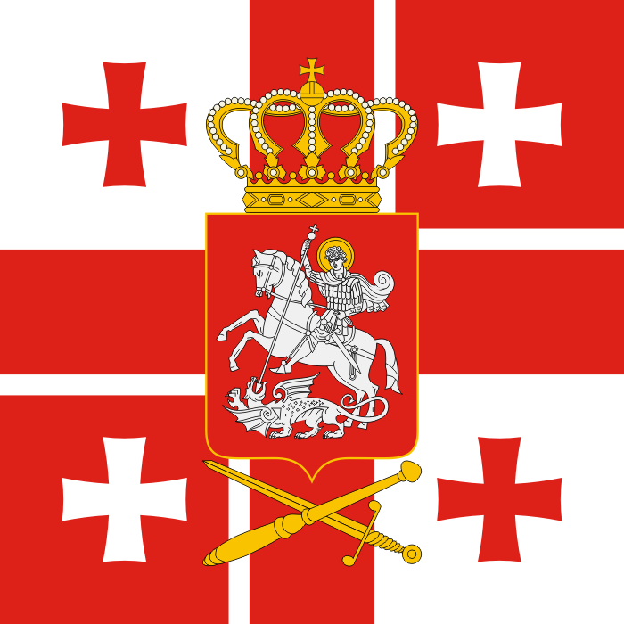 Standard of the President of Georgia